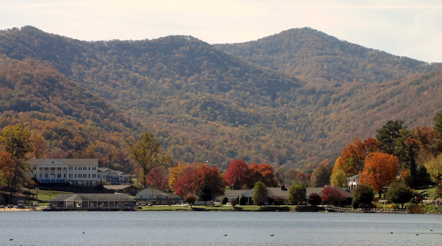 Lake Junaluska, North Carolina looking west